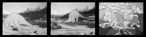 Stills of Gertie on Tour, a public domain film (published before 1923 in the U.S.). From the Library of Congress' Motion Picture & Television Reading Room.